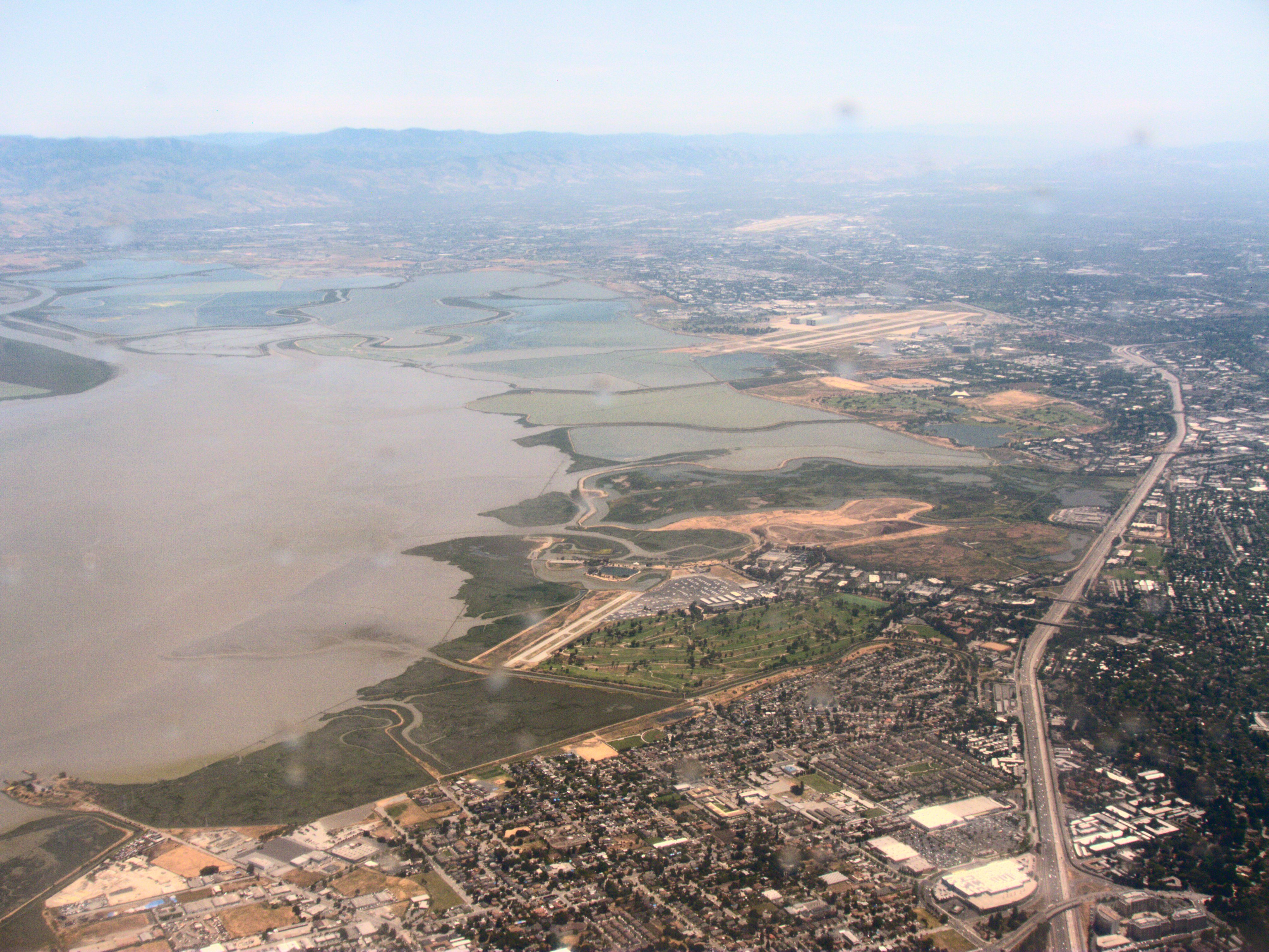 From front to back: East Palo Alto, Palo Alto Airport of Santa Clara County, Moffett Federal Airfield